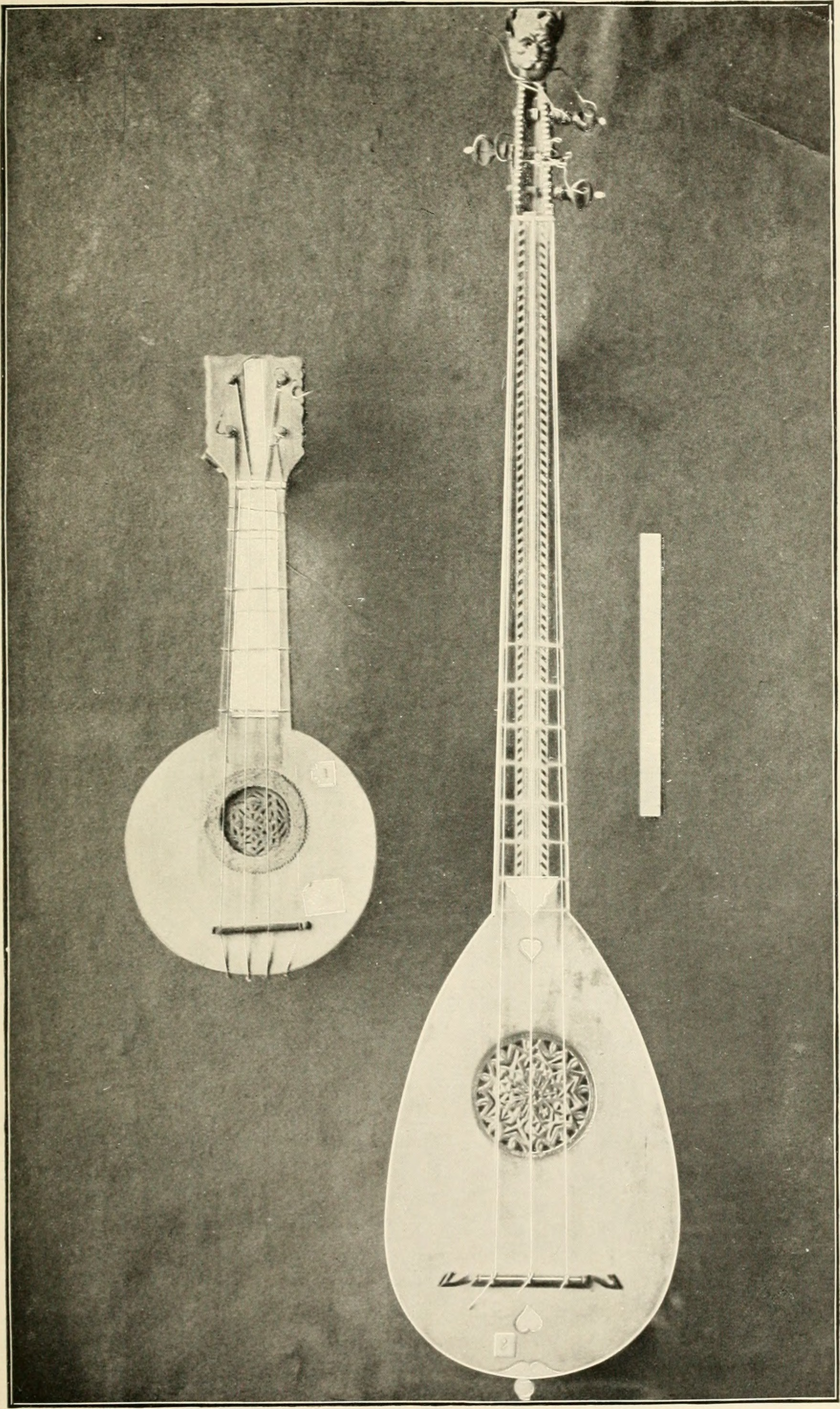 Title: Annual report of the Board of Regents of the Smithsonian Institution Year: 1846 (1840s) Authors: Smithsonian Institution. Board of Regents; United States National Museum. Report of the U. S. National Museum; Smithsonian Institution. Report of the Secretary Subjects: Smithsonian Institution; Smithsonian Institution. Archives; Discoveries in science Publisher: Washington : Smithsonian Institution Text Appearing Before Image: Report of U. S. National Museum, 1900.—Wead. Plate 1, Text Appearing After Image: Stringed Instruments.